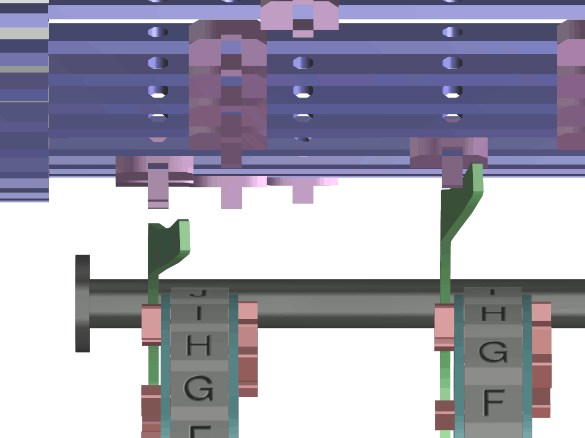 Illustration of how the M-209 operates. Created by Wapcaplet in Blender, reduced in the GIMP.